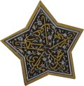 Safavid Star from Ceiling of Shah Mosque, Isfahan, Iran ستارهٔ صفوی،‌ سقف مسجد شاه در اصفهان